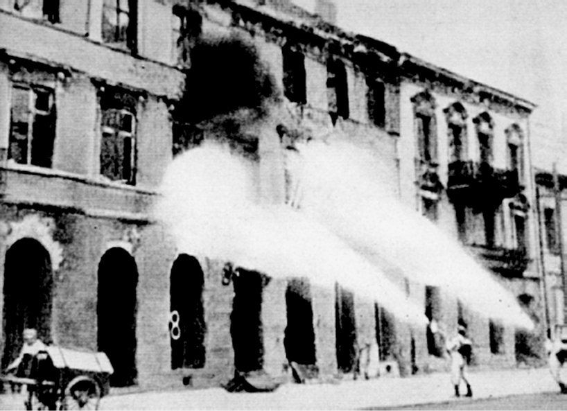 Firing Warsaw house by house by German firing units during and after the Warsaw Uprising